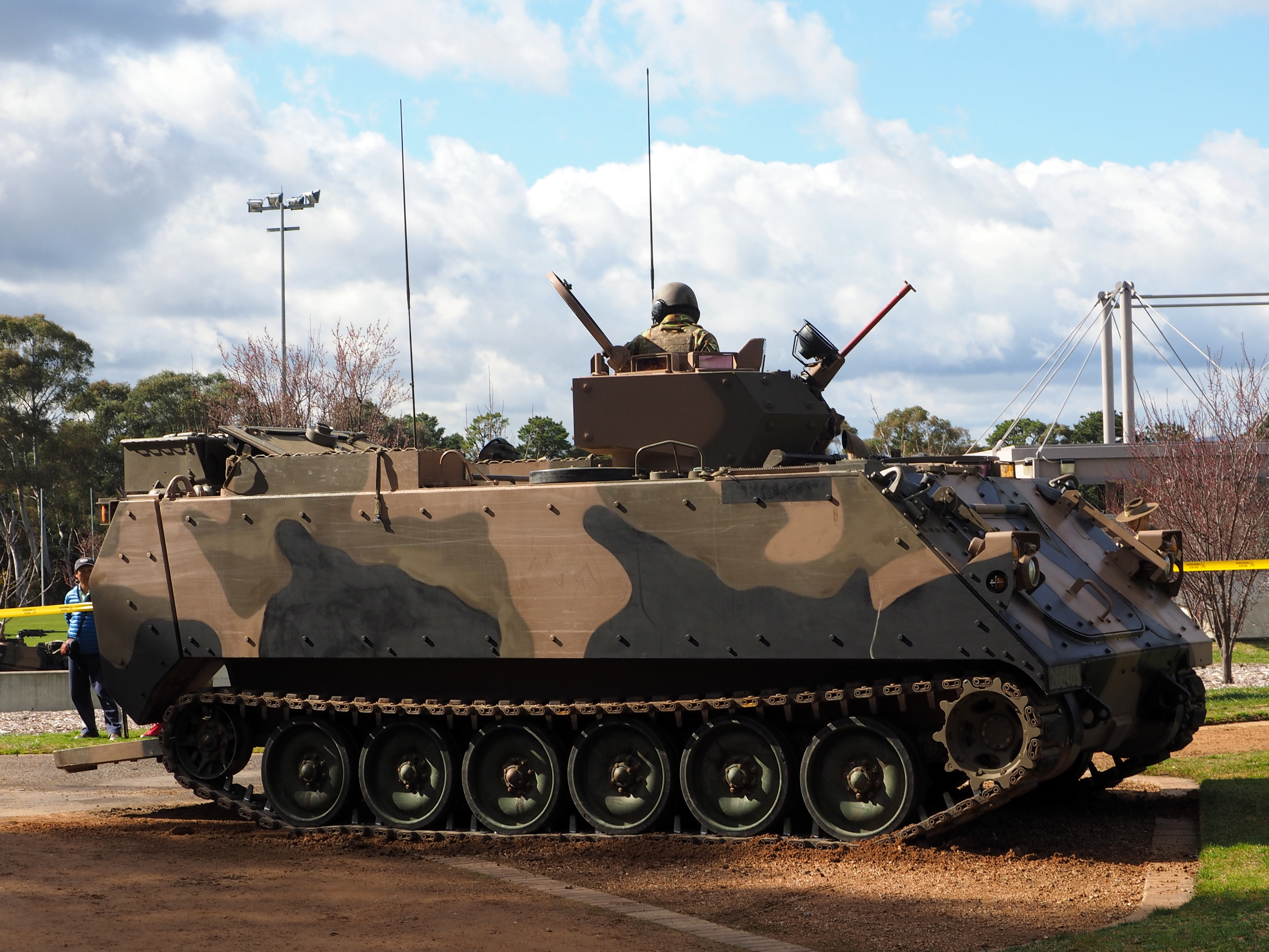 Side view of a M113AS4 at the 2015 ADFA open day